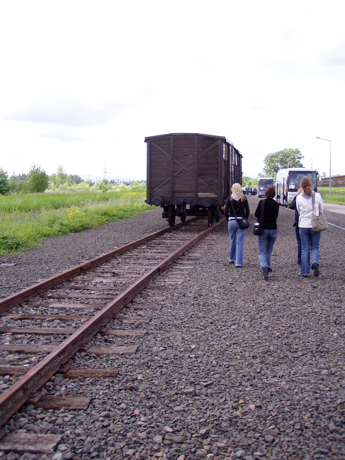 (Jewish ramp) near Auschwitz-Birkenau concentration camp Judenrampe (Rampa zydowska) niedaleko obozu koncentracyjnego Auschwitz-Birkenau